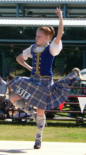 Highland dancing at the 2005 Pacific Northwest Highland Games. Note the "break" in the kilt at the hipline. This is the result of the kilt pleats being stitched down through the fell (that portion of the kilt from waistline to the widest portion of the hips). The action of the kilt is an integral feature of Highland dancing.